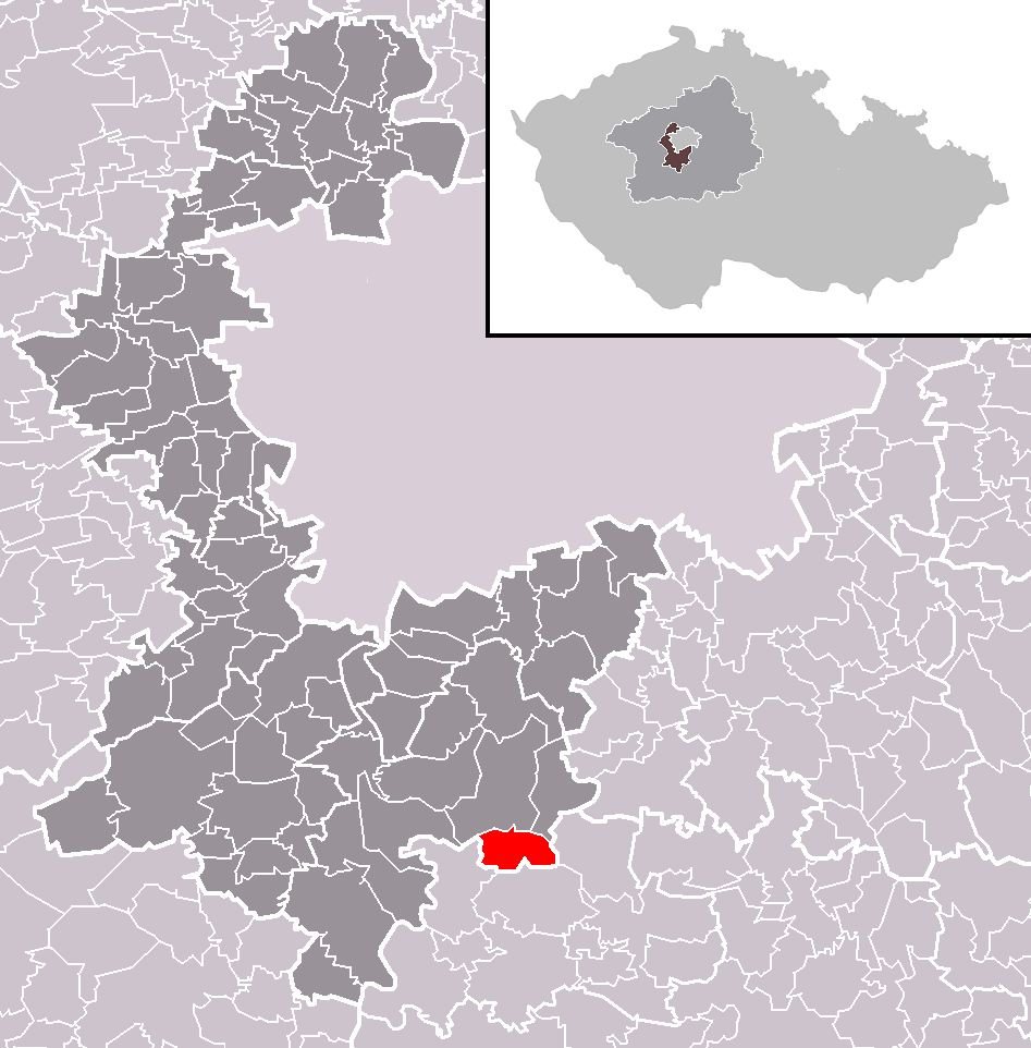 Location of Kamenný Přívoz municipality within Prague-West District and administrative area of Černošice as a Municipality with Extended Competence.